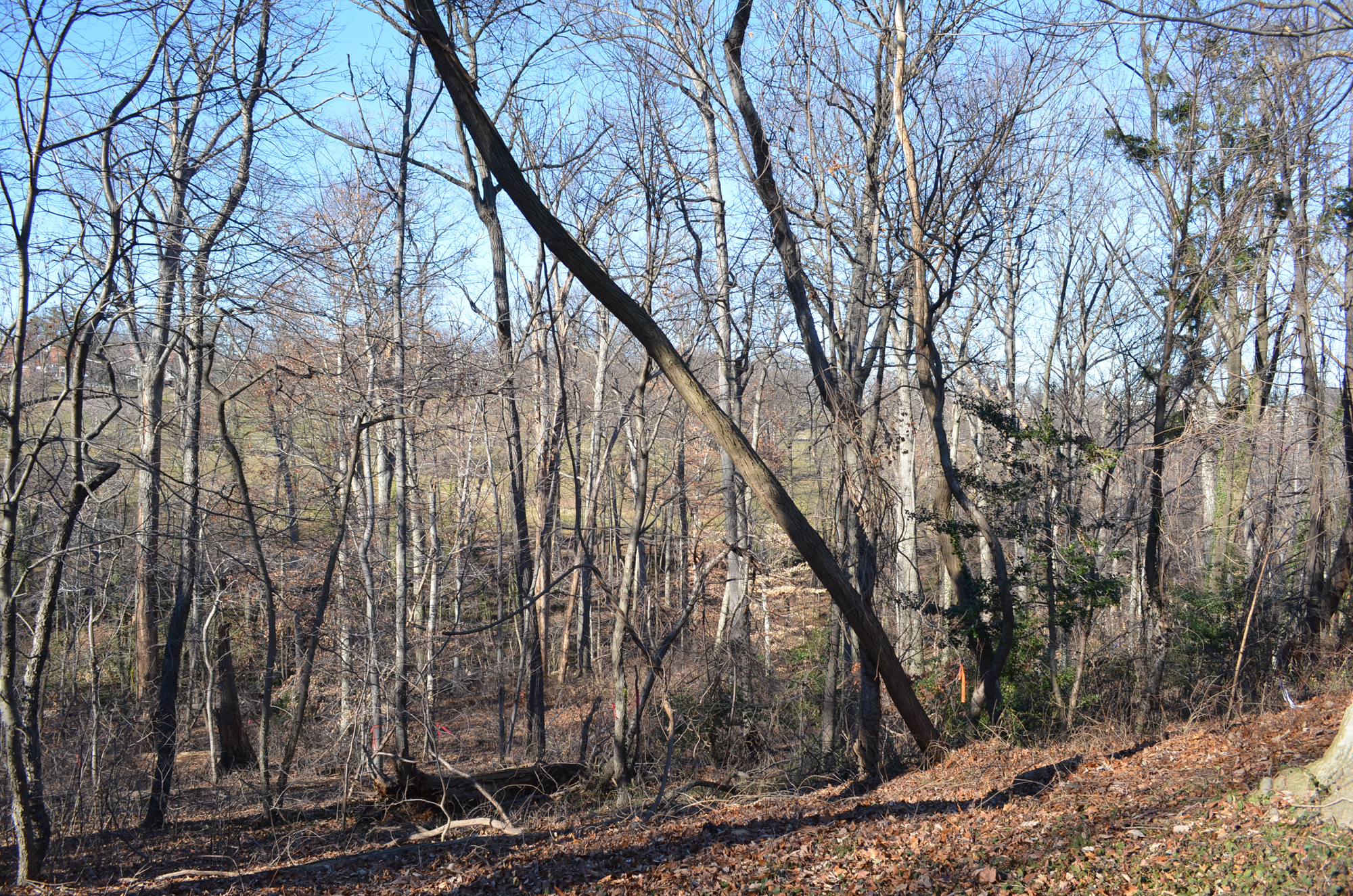 Standing on Humphreys Drive, slightly southwest of the Superintendent's Lodge, looking at Arlington Woods in Arlington National Cemetery in Arlington County, Virginia, in the United States. On the high ground, center-left, through the trees in the far distance can be seen buildings on Fort Myer, which abuts the cemetery in this area.